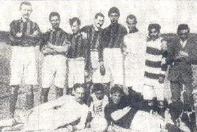 This is the earliest known publicly available photo of the football club who eventually came Calcio Catania. It was taken while they were using the name A.S. Educazione Fisica Pro Patria in en:1908. direct